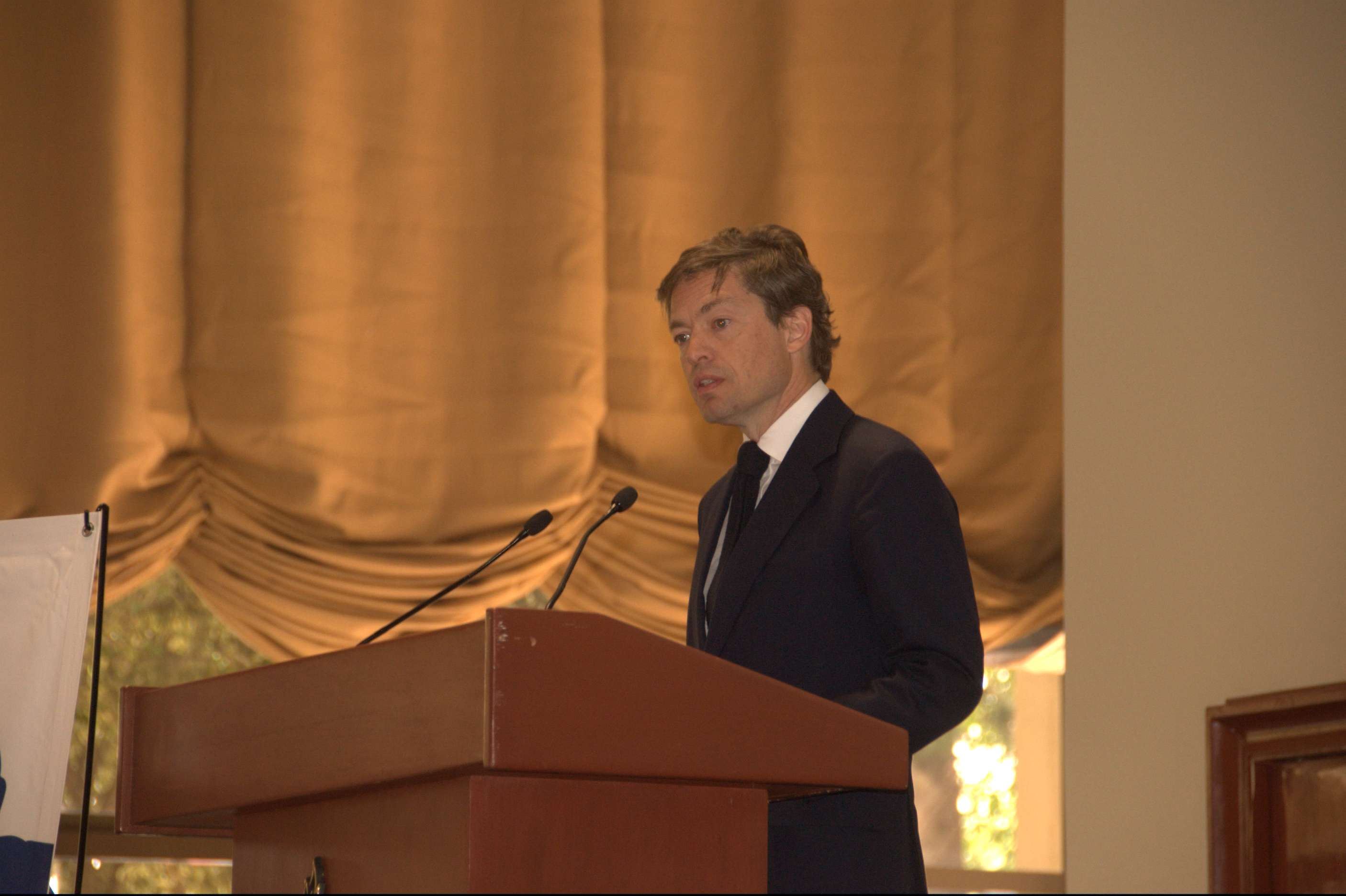 Nicolas Berggruen speaking at the Global Governance event at ITESM- Campus Ciudad de México